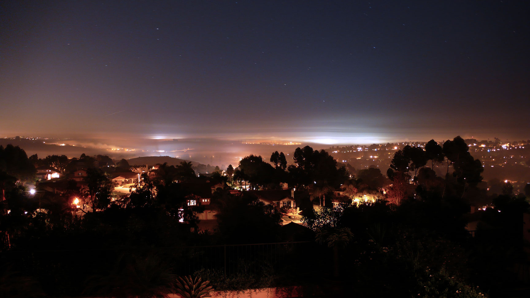 A night shot of Carlsbad CA. Looking Southwest from Molly Mountain (Mount Calavera) in the Northeast quadrant.